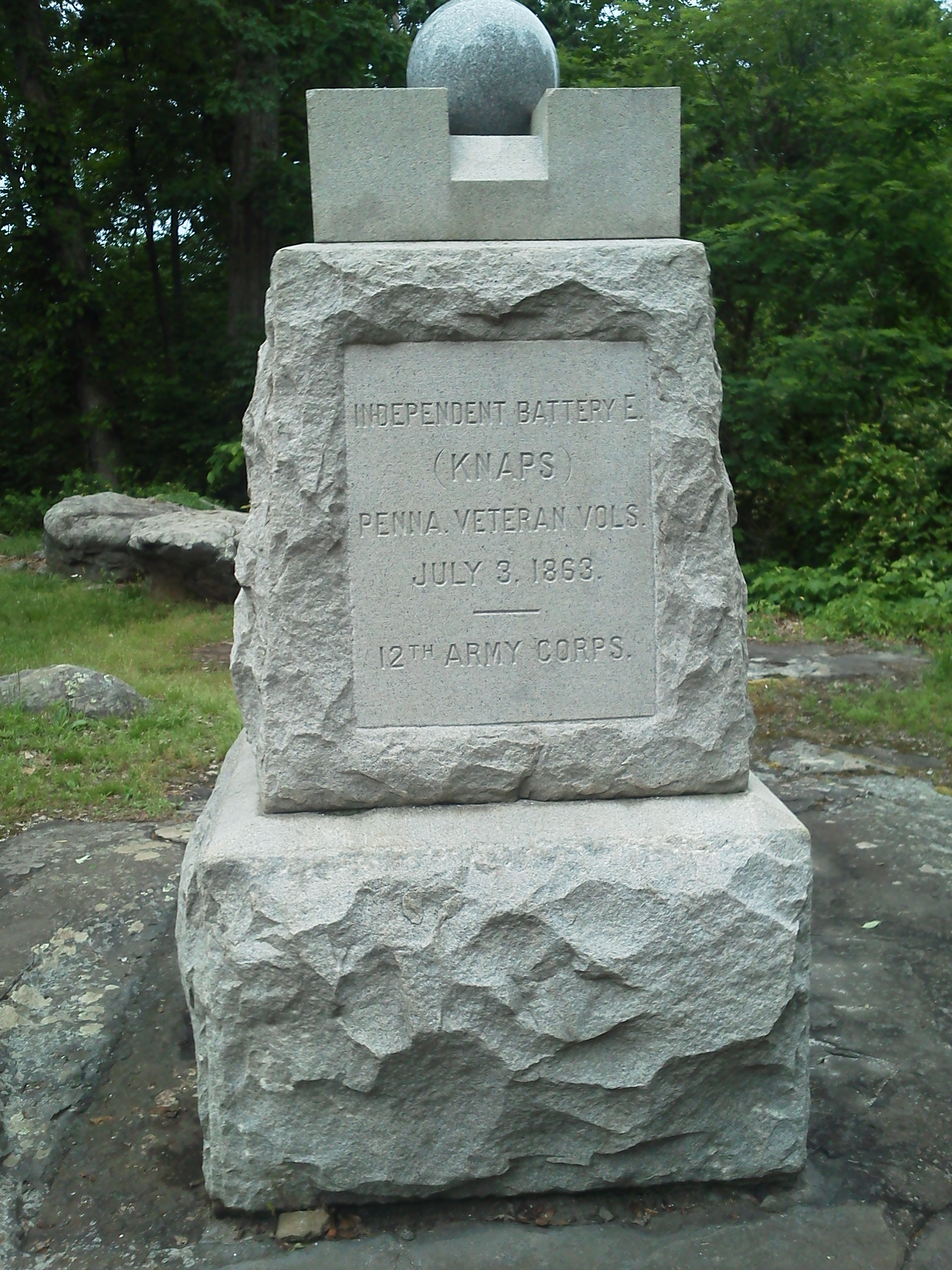 The Independent Battery E, Pennsylvania Volunteers Monument found at Gettysburg Battlefield